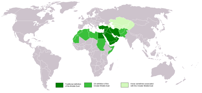 Middle East, G8 Greater Middle East and associated areas.